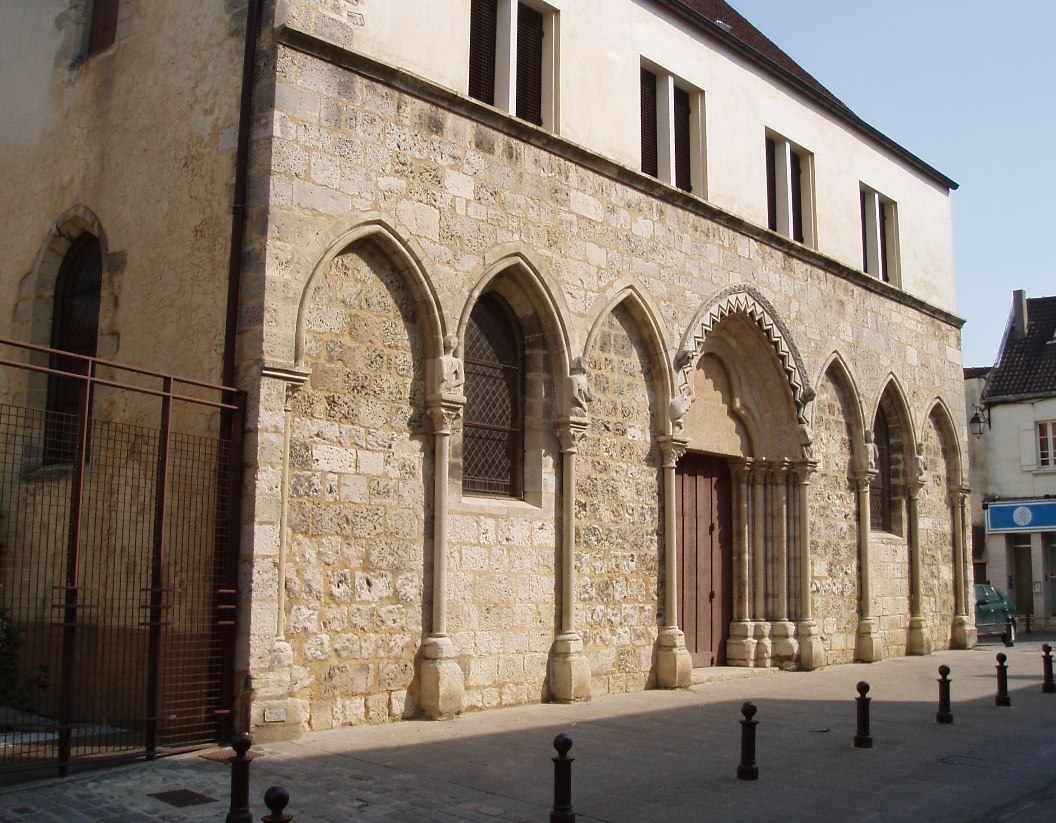 Brie-Comte-Robert, Seine-et-Marne, France: Hôtel-Dieu